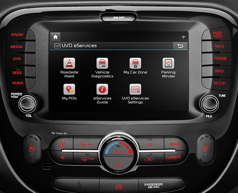 UVO eServices with Premium Navigation headunit with the surrounding dashboard elements, from a 2015 Kia Soul